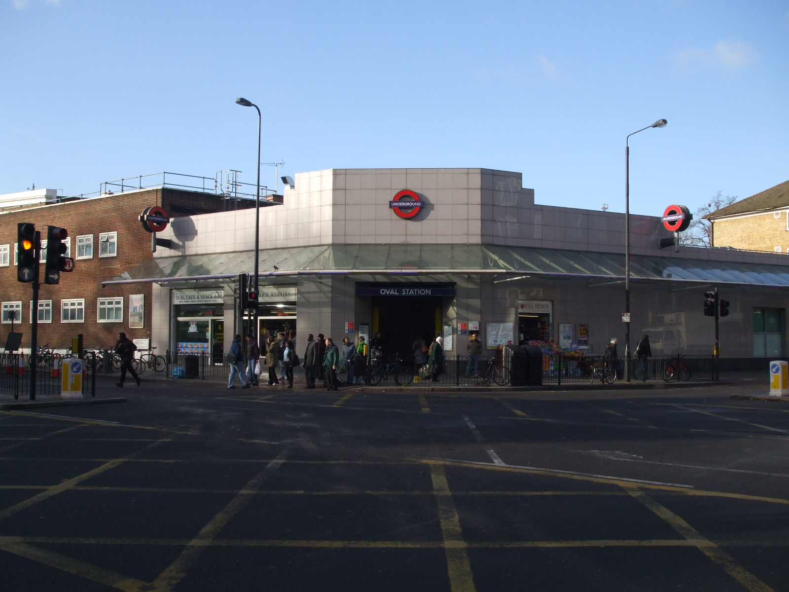 Oval tube station